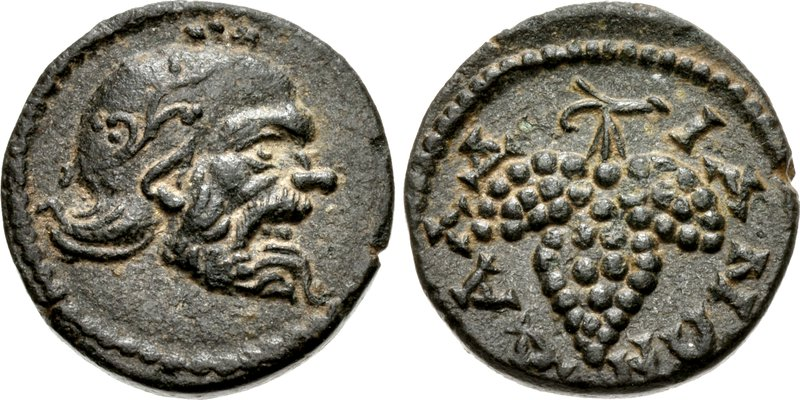 LYDIA, Daldis. Pseudo-autonomous issue. temp. Antonines, AD 138-192. Æ (13.5mm, 1.85 g, 6h). Head of Silenus right, wearing ivy wreath / ΔΑΛΔΙΑΝΩΝ, bunch of grapes.